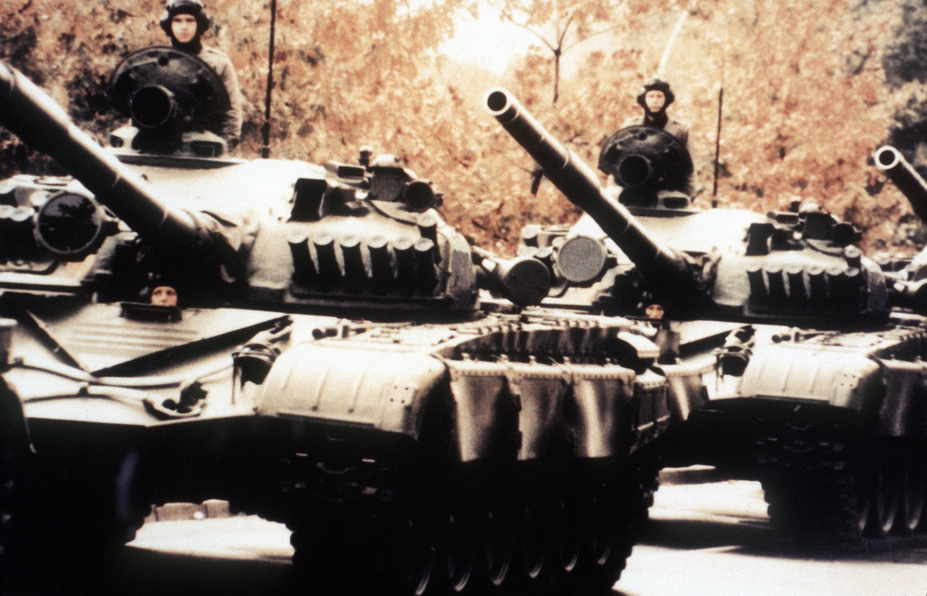 Left front view of a convoy of Soviet T-72 main battle tanks. From Soviet Military Power 1985.